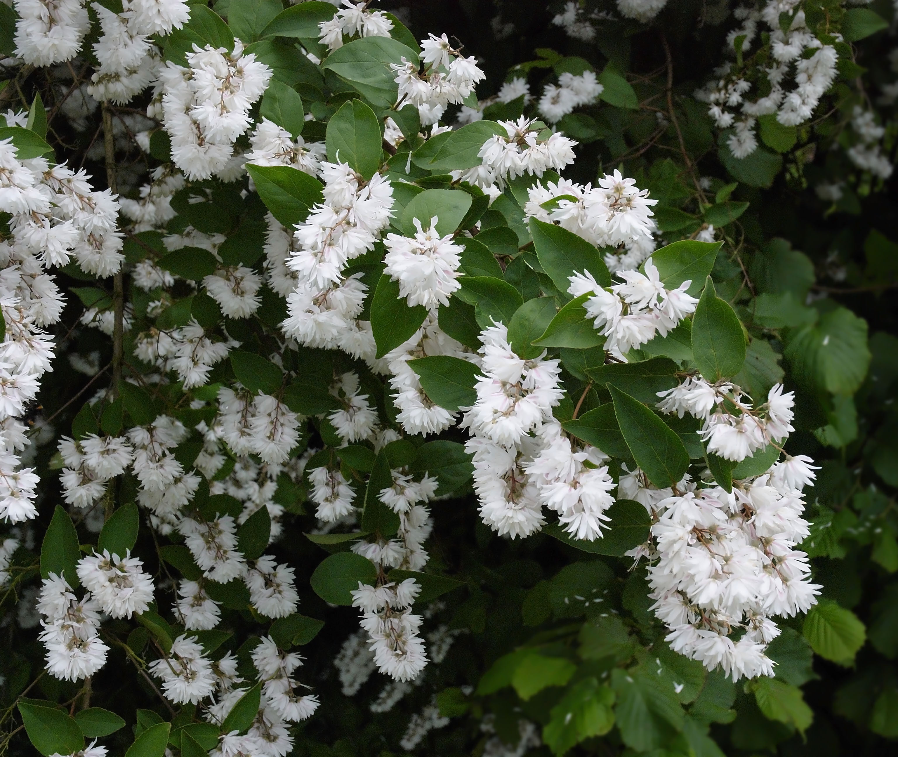 Deutzia scabra Other photos of the same bush of about 3 m high